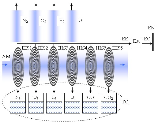 Molecular power 46. Wind power system based on ionization heterostructural converter